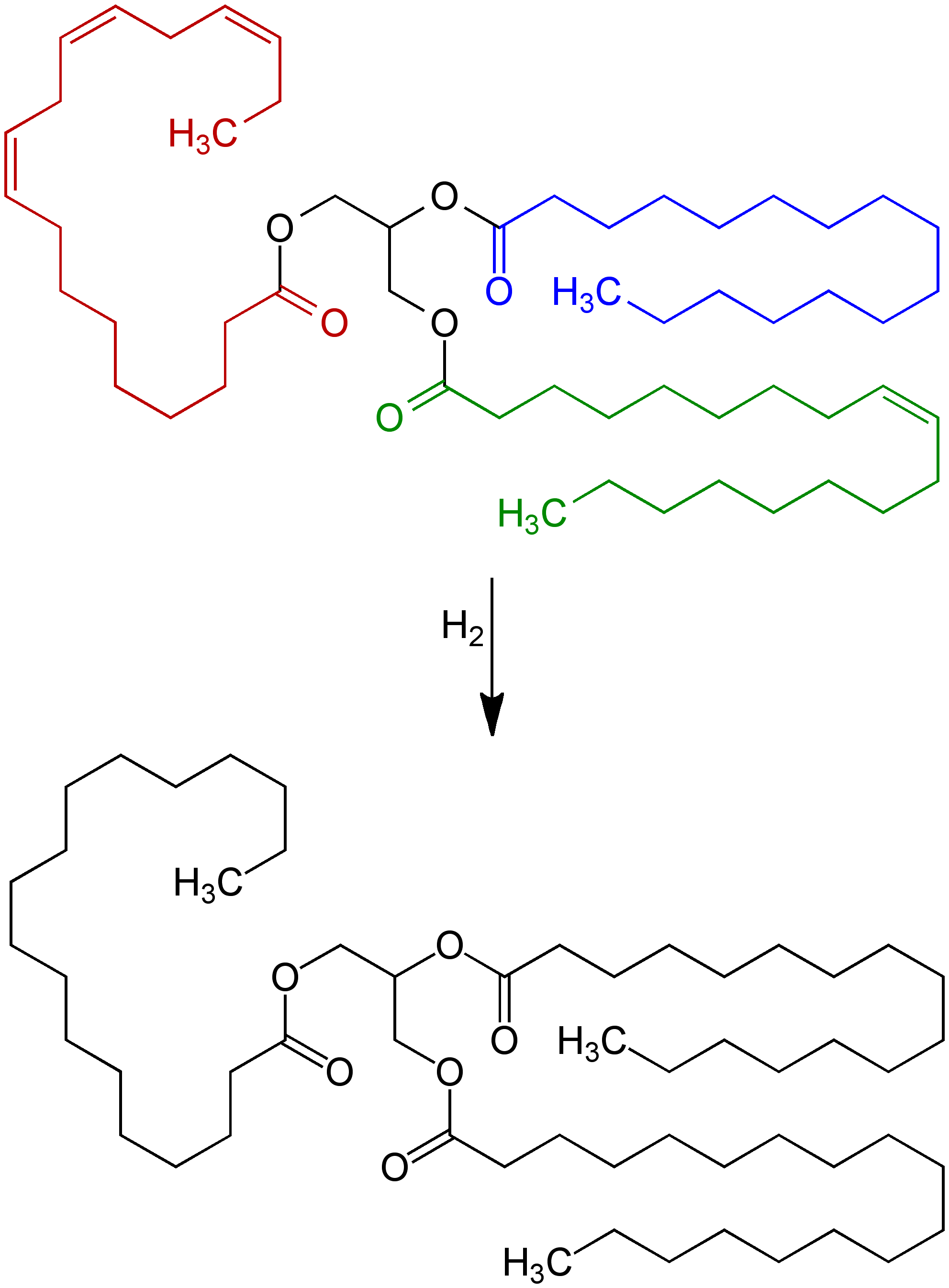 Triglyceride_Hydrogenation